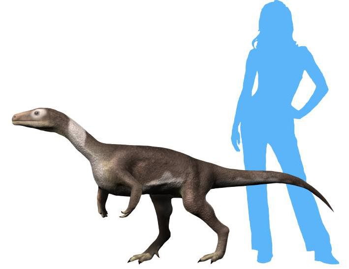 Restoration of Guaibasaurus candeleriensis.